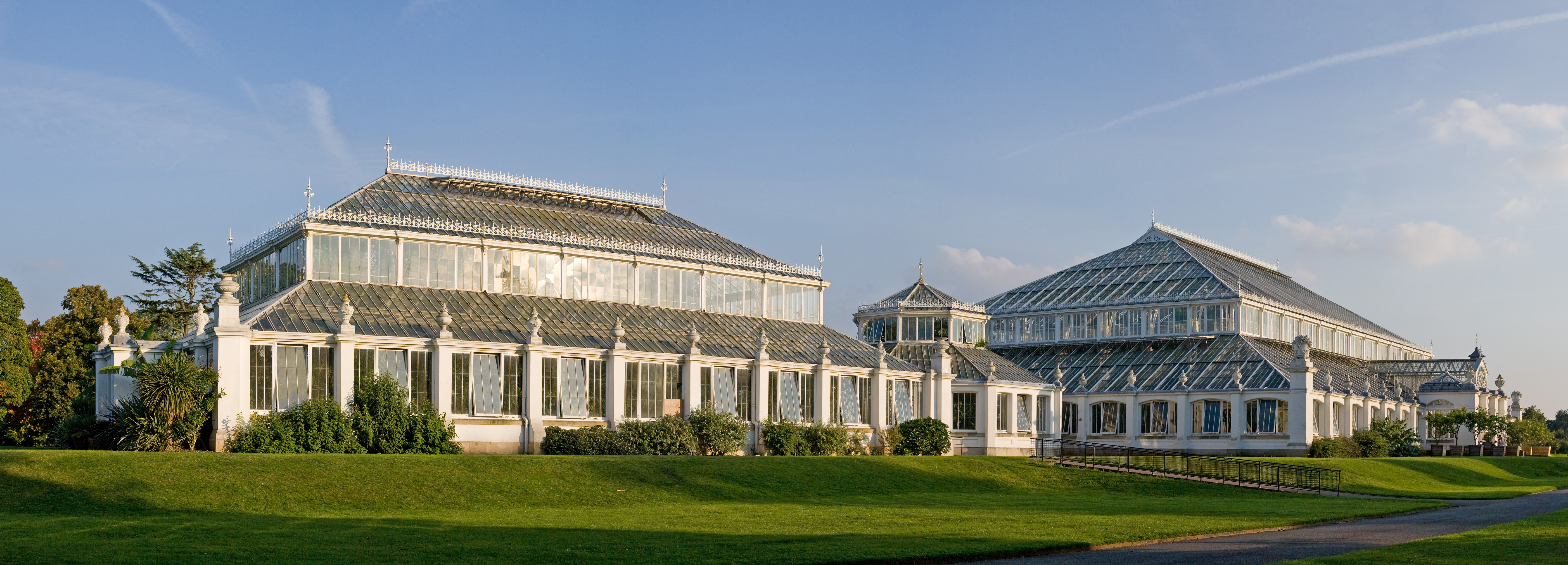 The Temperate House in the Royal Botanical Gardens, Kew, London. Taken as an 8 segment panorama in portrait format with a Canon 5D and 24-105mm f/4L IS lens.